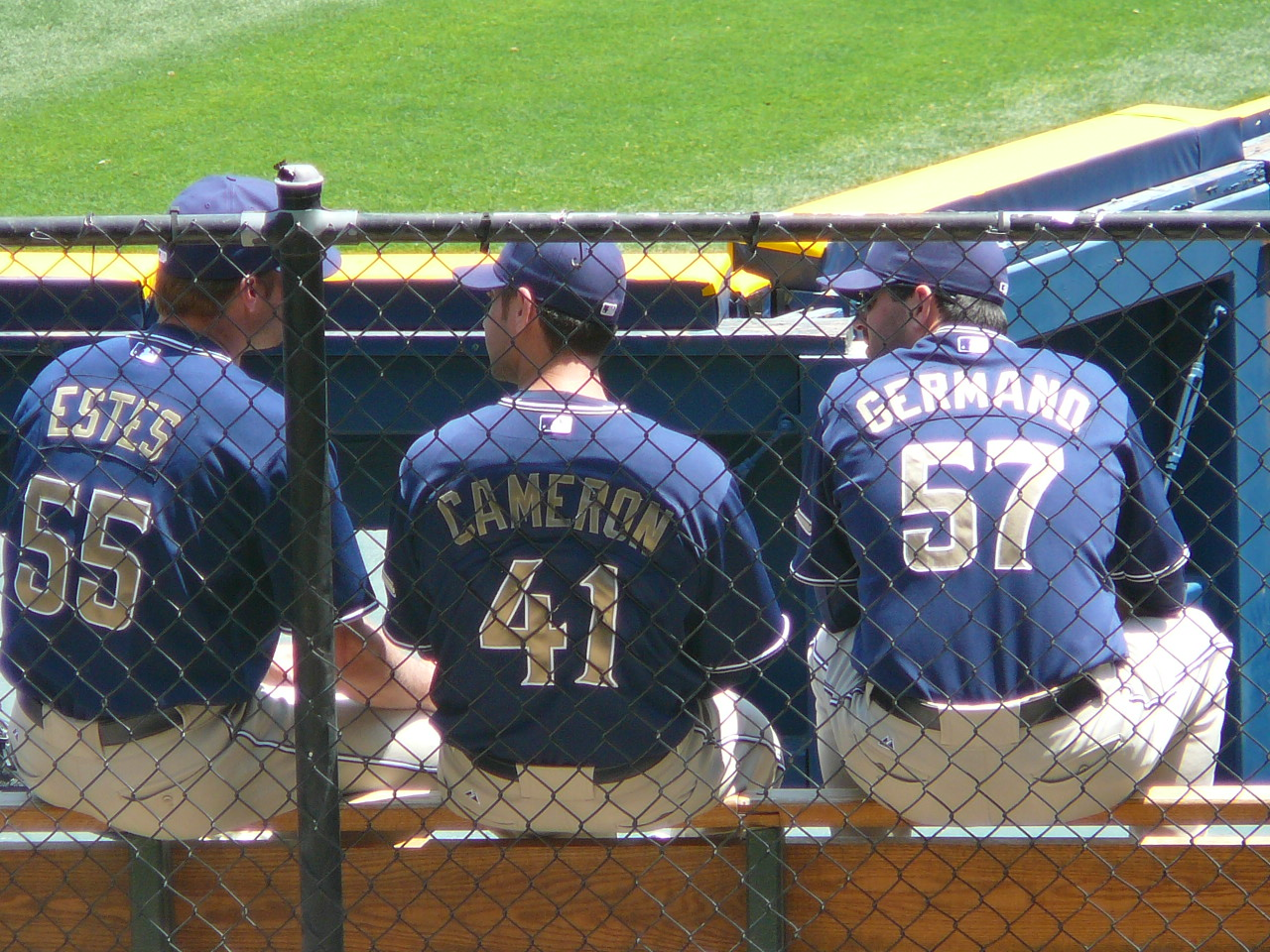 Please attribute this photo by name if used in places other than Wikipedia. 09:17, 28 May 2008 . . Chrisjnelson . . 1,280×960 (466 KB)